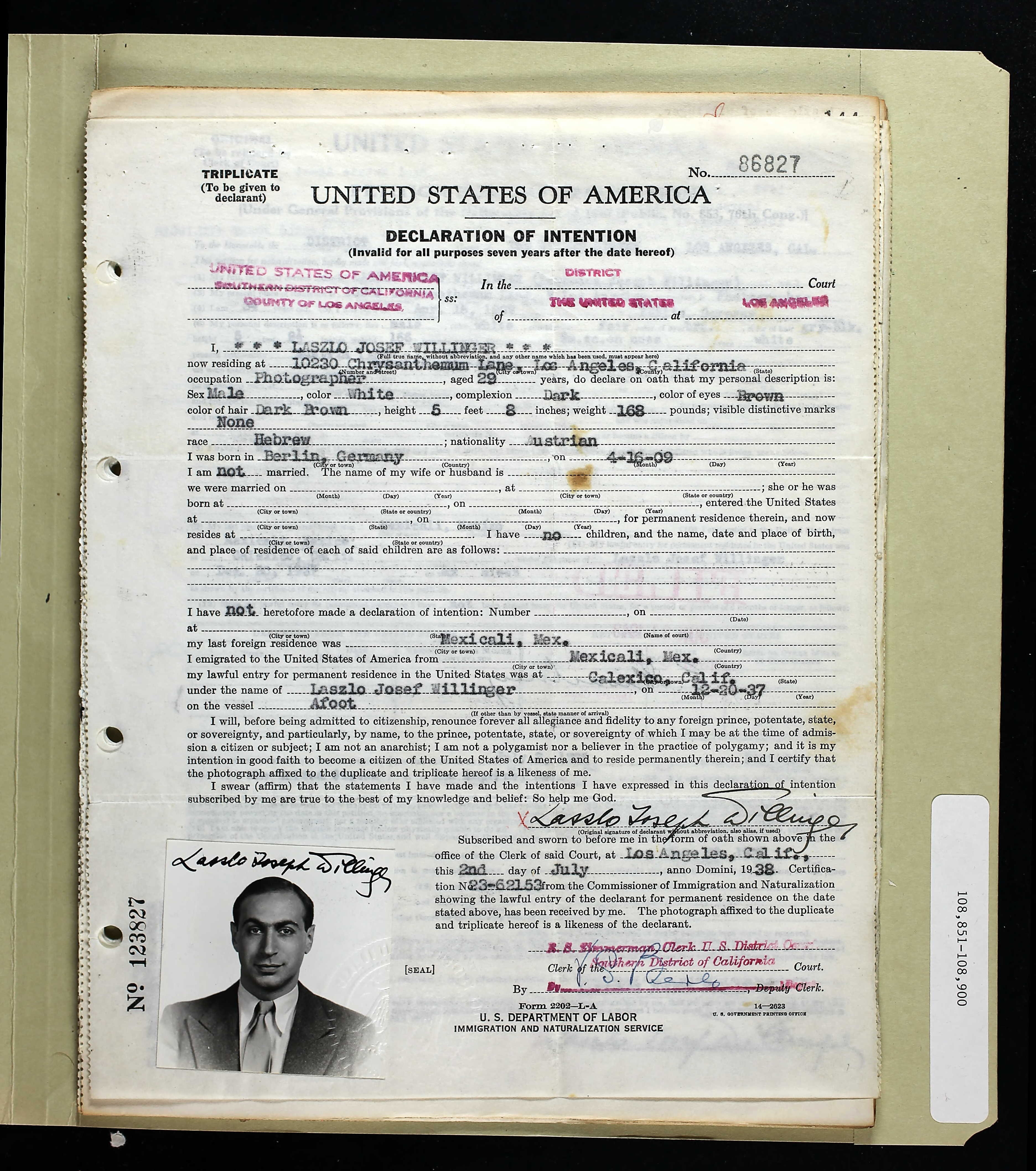 László Josef Willinger (1909-1989) declaration of intention from 1938